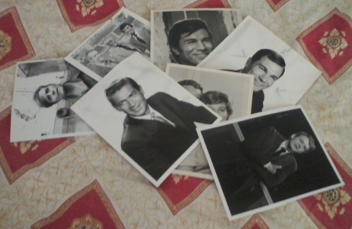 Collection of seven photos, piled up on the blanket